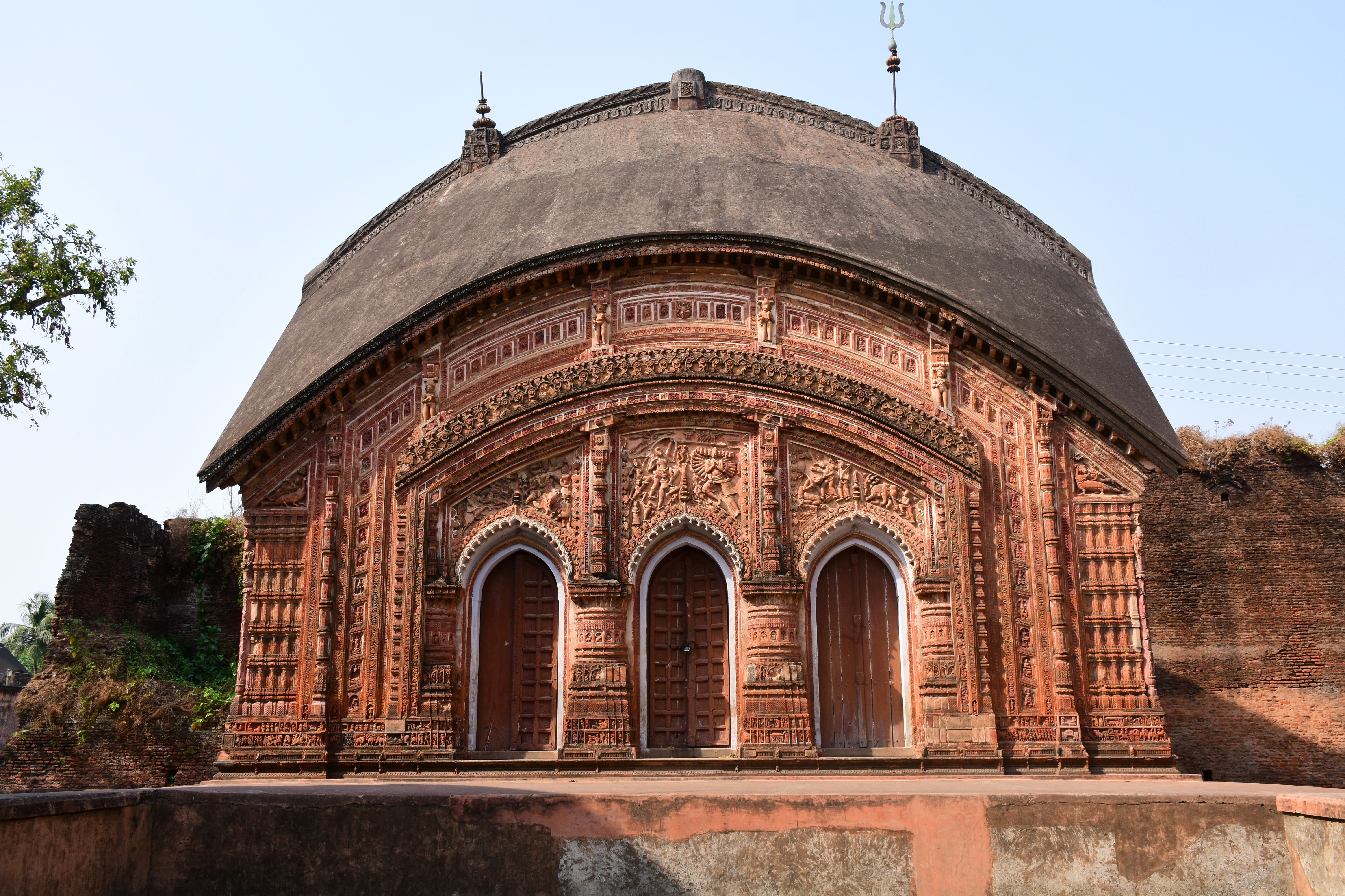 One of the four Char Bangla Temple at Baronagar in Murshidabad District. This Temple faces South. This has the most exquisite terracotta panels.